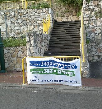 שלט של קדימה ממערכת הבחירות של 2013